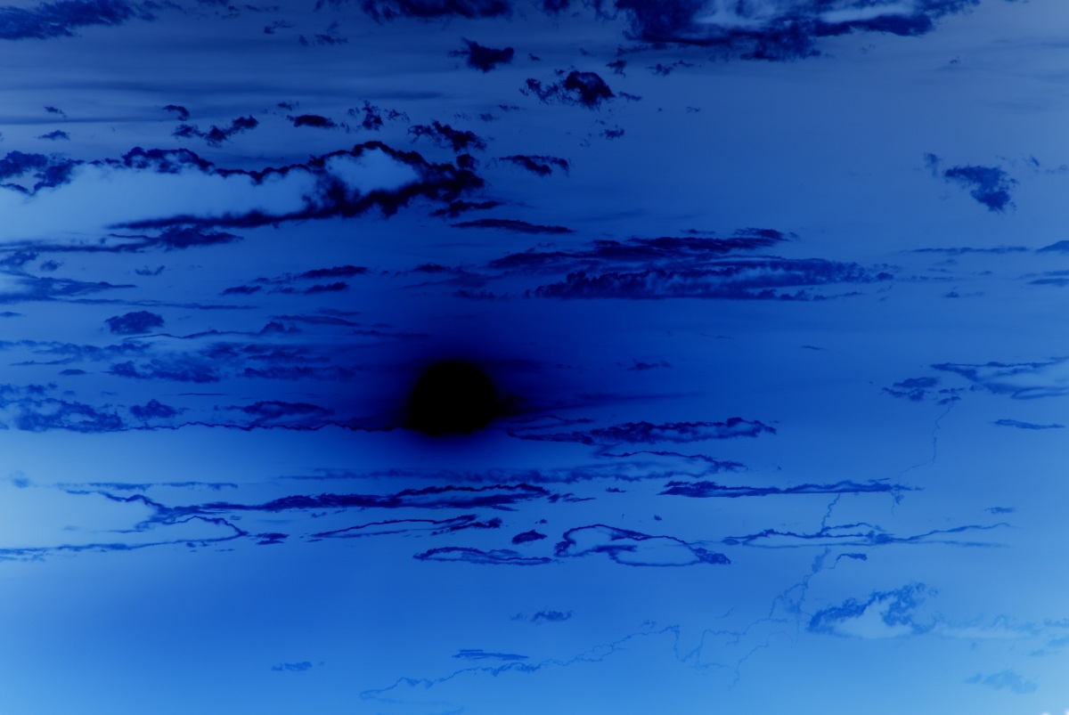 Black Sun, sunset negative.